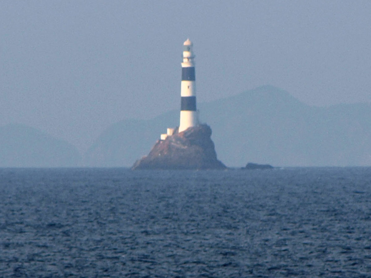 Mizunokojima Lighthouse at Mizunokojima, Saiki, Oita, Japan